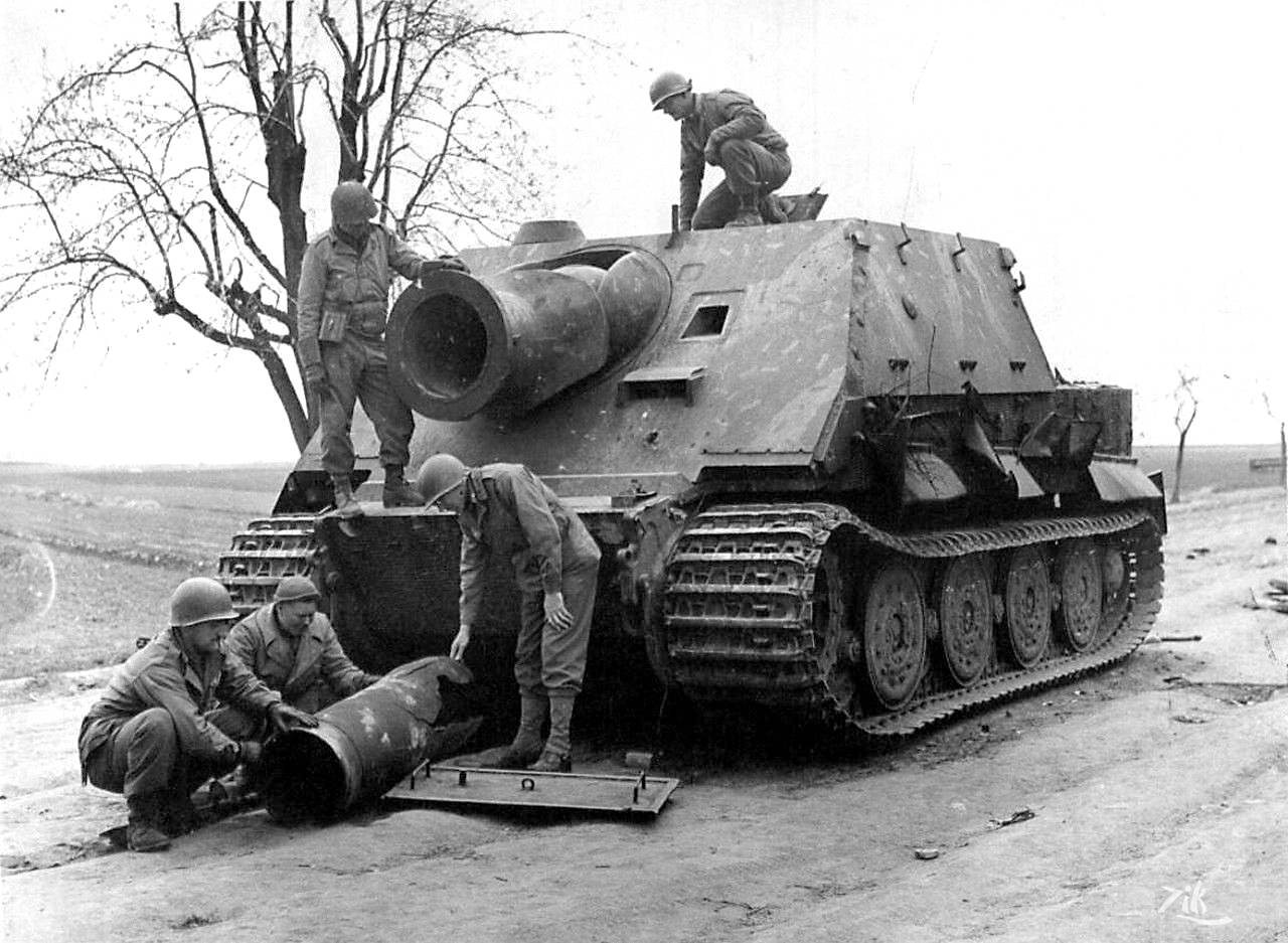 Sturmtiger, abandoned and blown by its crew and captured by US troops